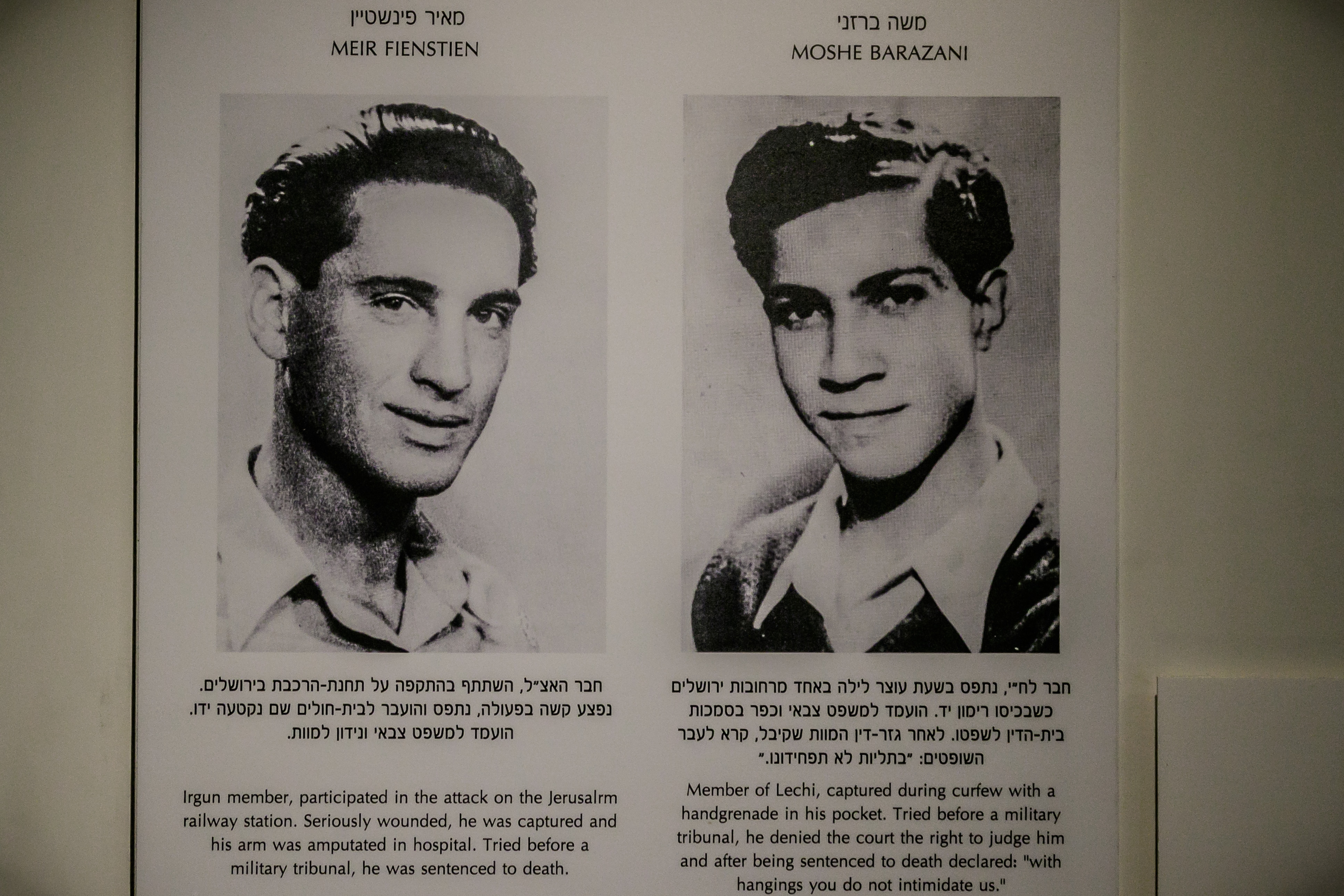 Lehi Museum, Florentine, Geography of Israel